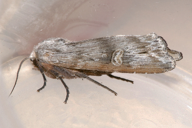 Lithomoia germana, Port Alberni, Vancouver Island, British Columbia, Canada